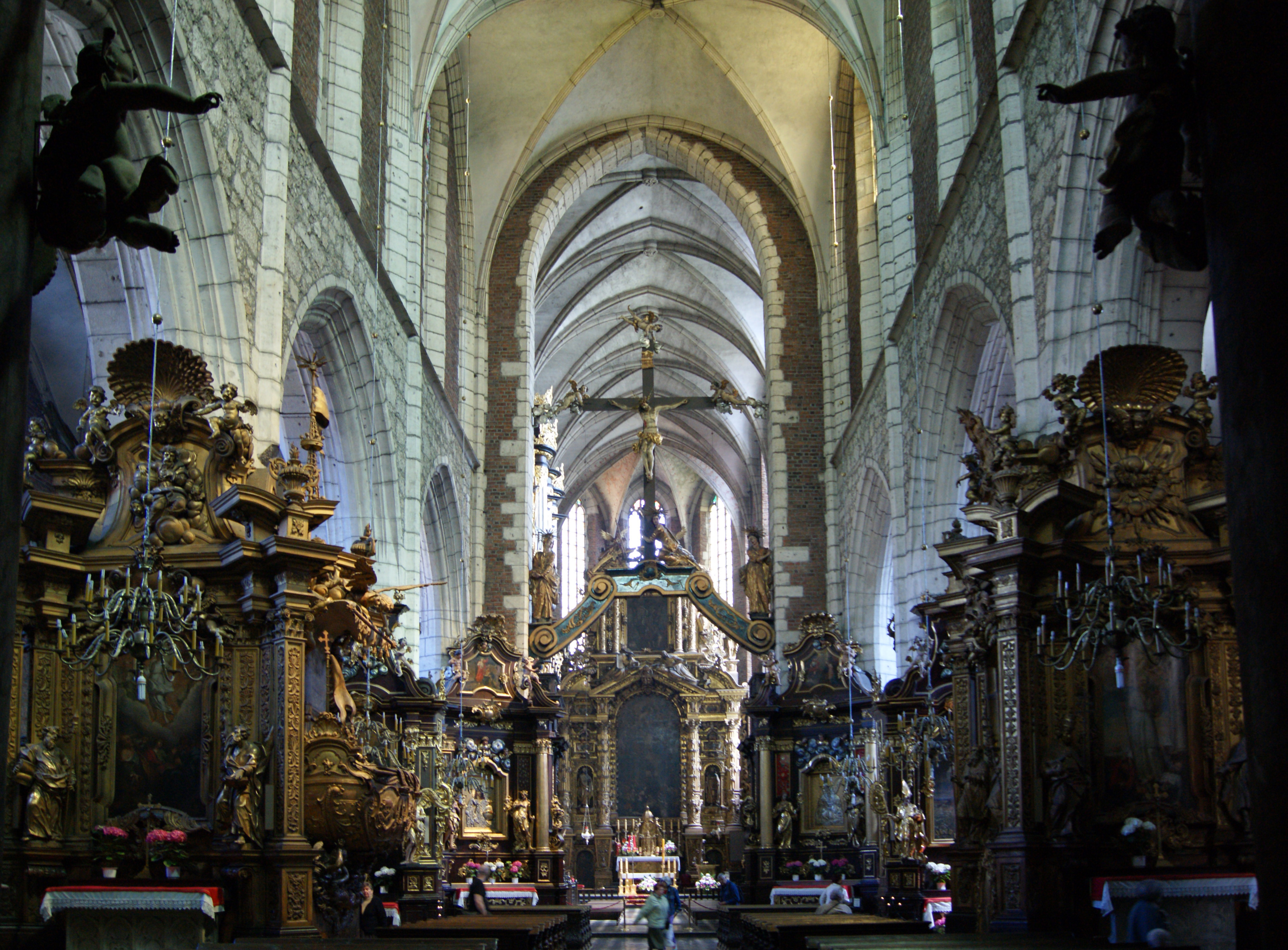 Corpus Christi Church (interior), 26 Bozego Ciala str, Kazimierz, Krakow, Poland